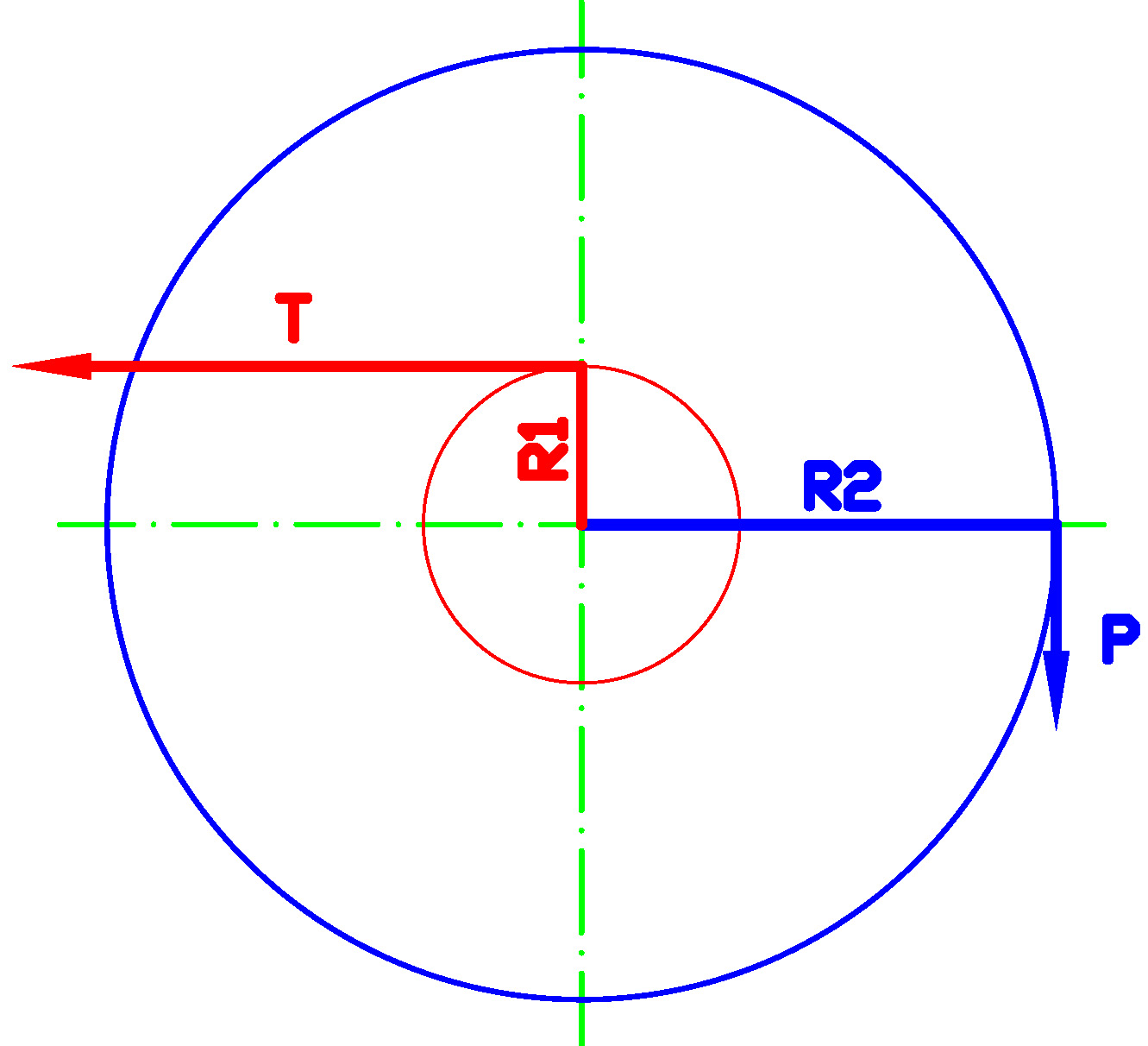 Overhead contact line. work of the mechanical tensioning device